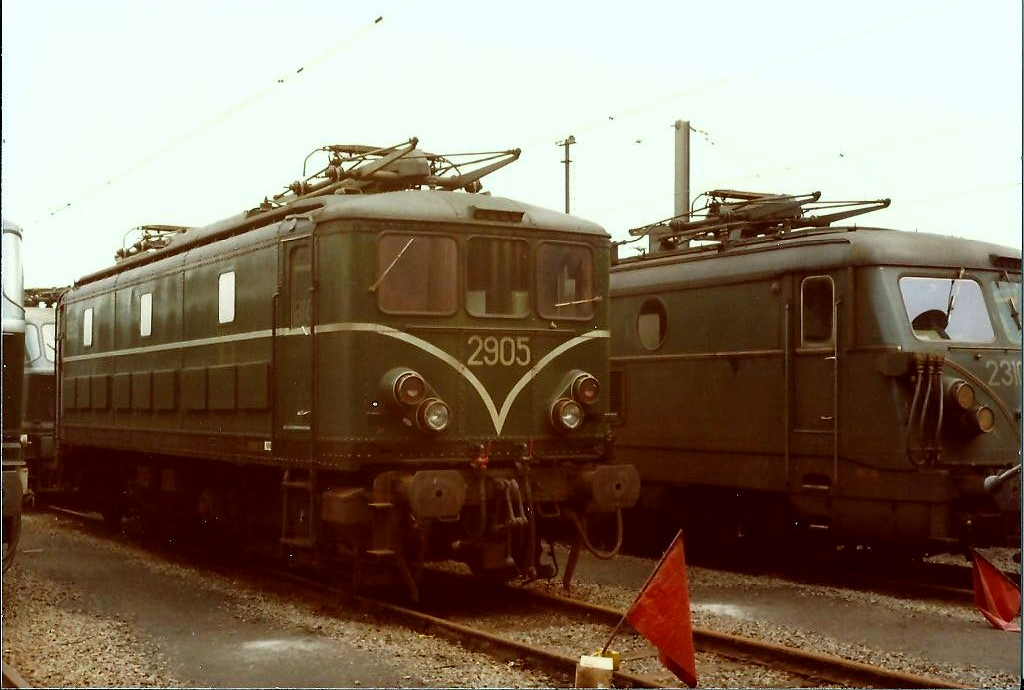 Locomotive 2905 during an open house to deposit of Ronet